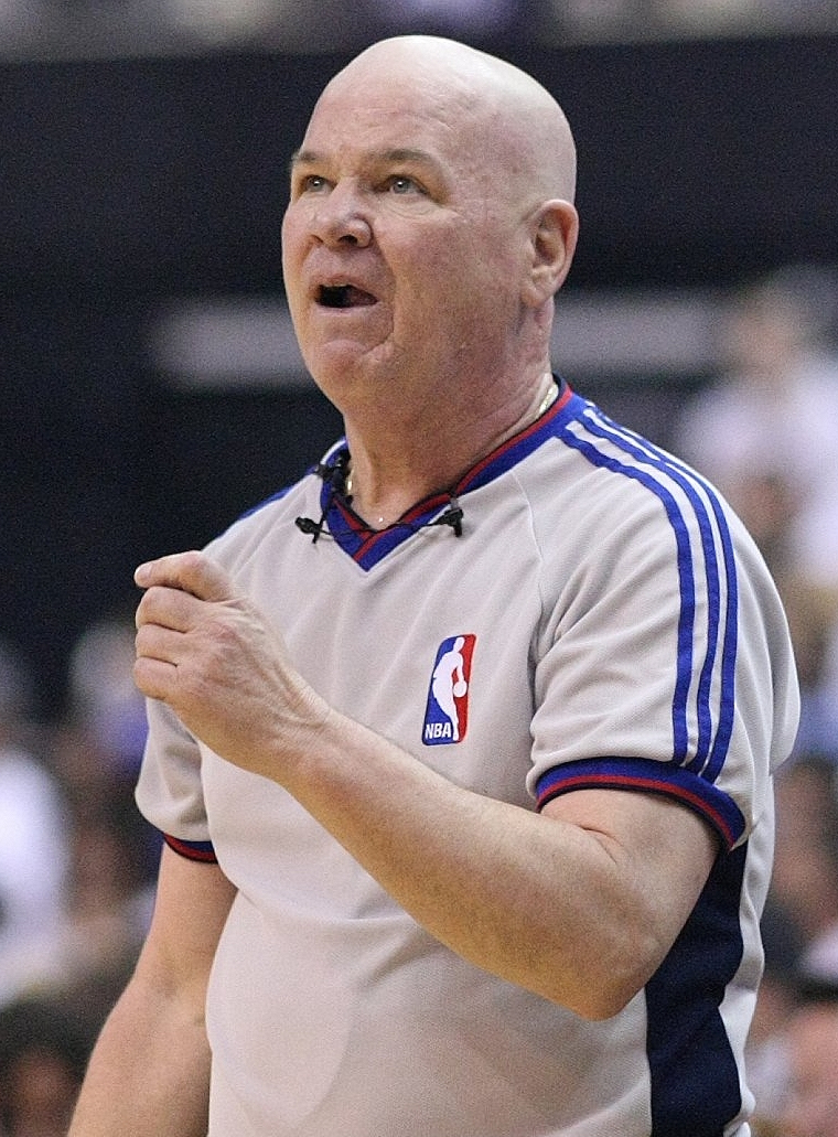 Mike Brown, basketball coach.